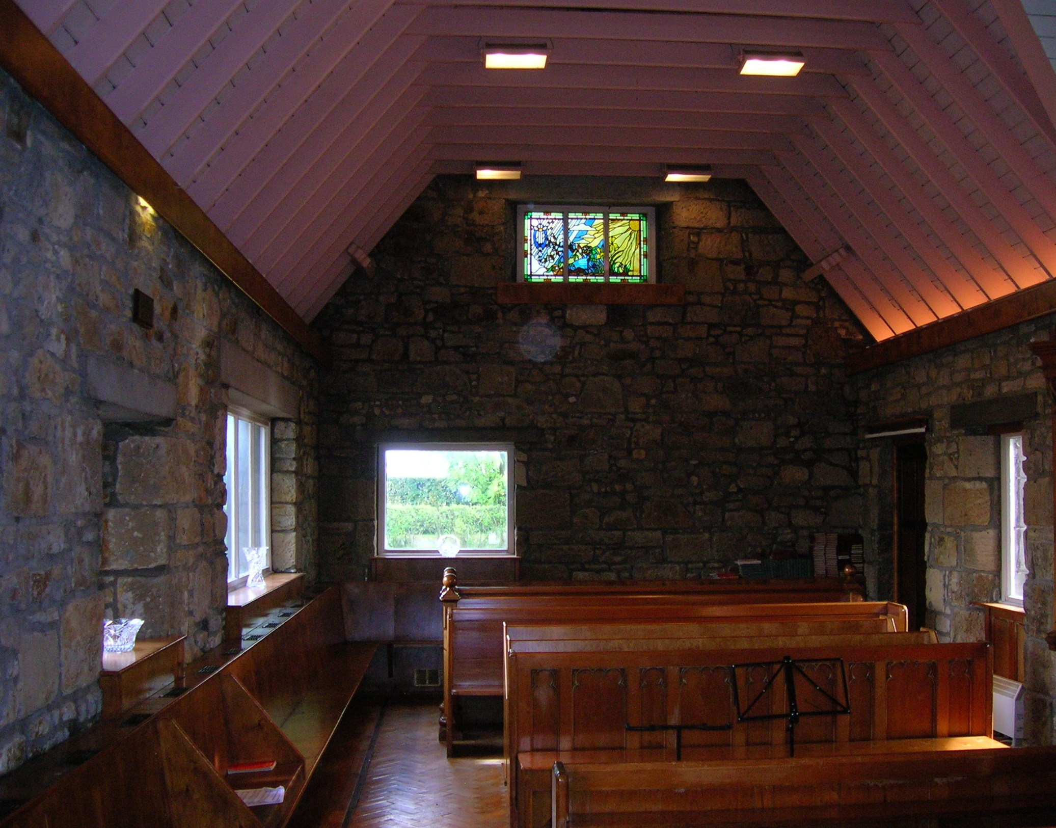 The Millport Chapel at Geilsland School, Beith, Ayrshire, Scotland